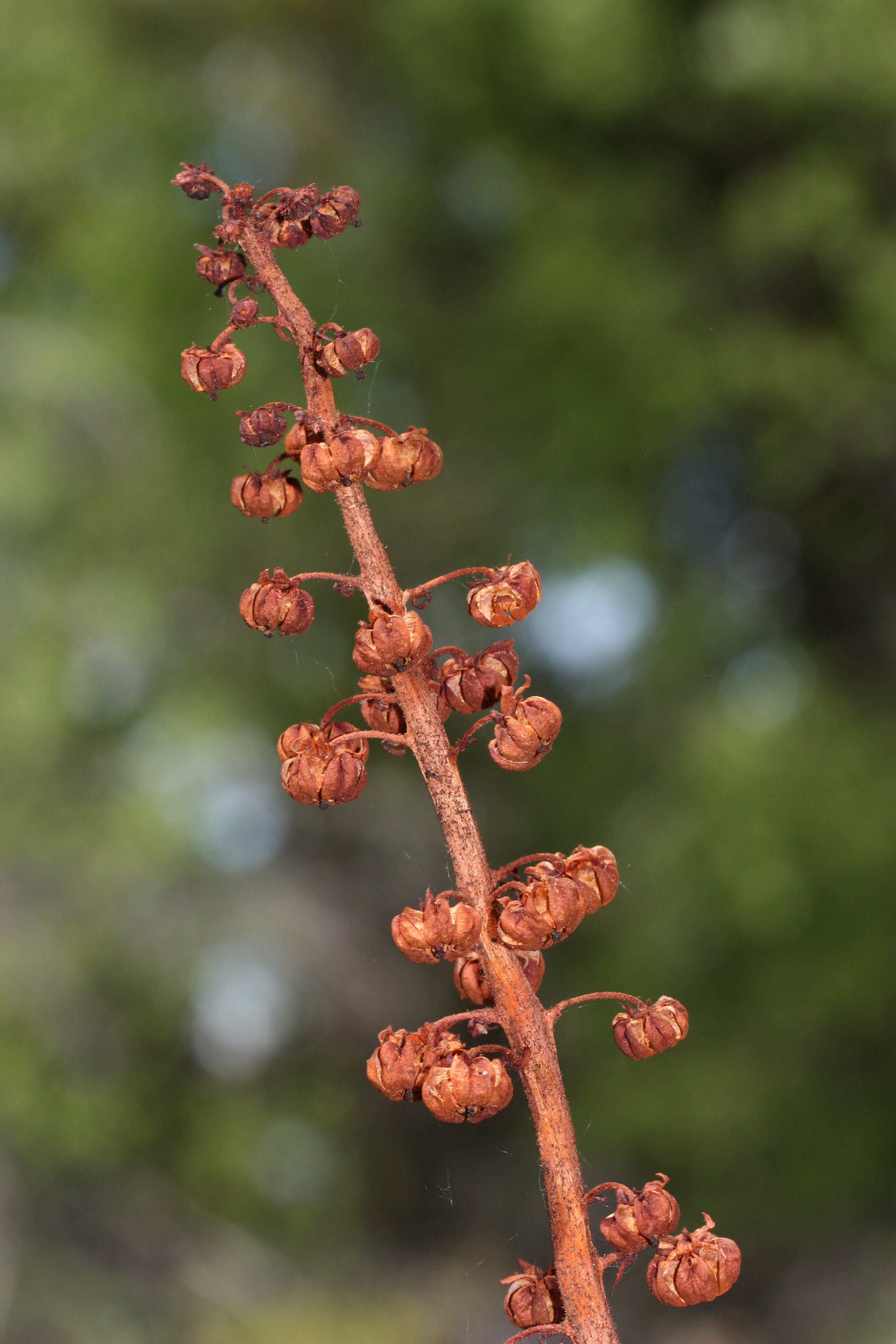 Woodland Pinedrops Viewpoint location: Tronsen Ridge Trail #1204, Tronsen Ridge Viewpoint elevation: 1296 meter (4252 ft) Location source: Garmin GPSmap 60CSx Location Datum: WGS84